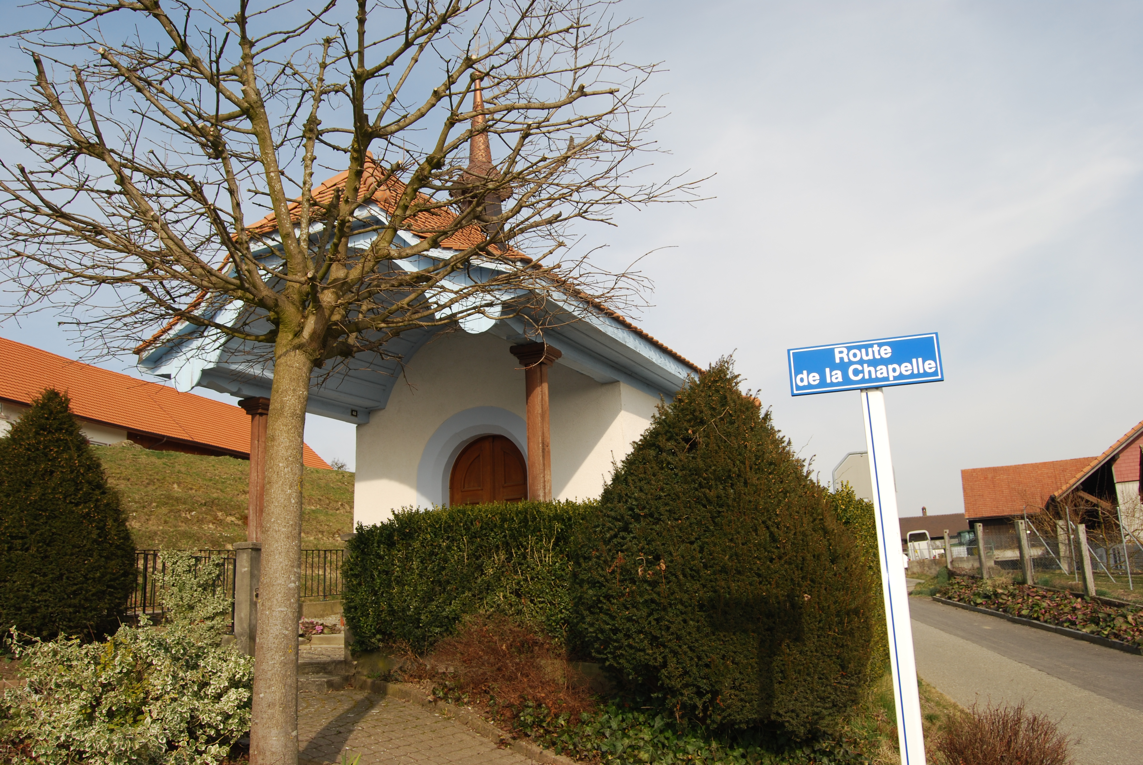 Chapel of Nativité de Marie at La Corbaz, municipality of La Sonnaz, canton of Fribourg, Switzerland